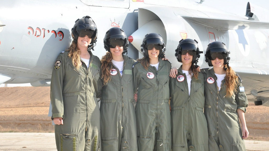 Female graduates of the IAF’s 163rd flight school course.